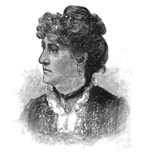 Marietta Holley